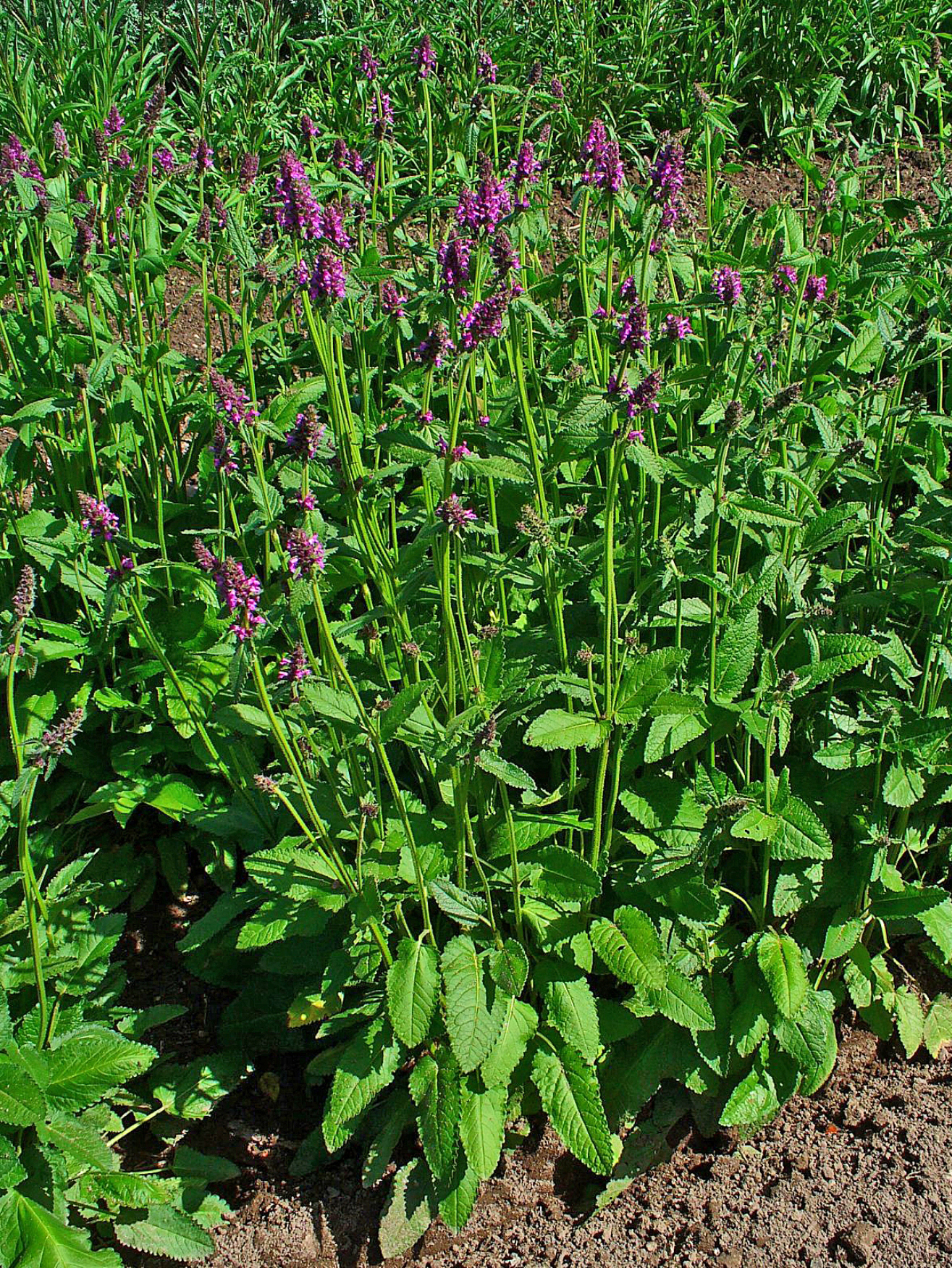 Stachys officinalis, Lamiaceae, Purple Betony, Wood Betony, Bishop's Wort, habitus.